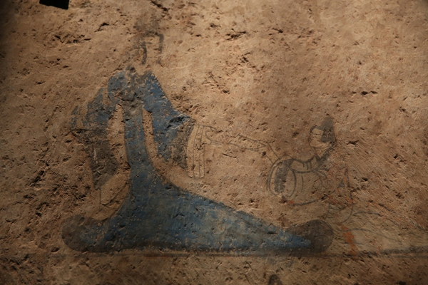 Queen Mother of the West (Hsiwangmu) dressing in the Han dynasty style Hanfu, on a wall mural from the late Western Han dynasty (202 BC - 9 AD) or even Xin Dynasty era (9-25 AD) tomb in Houtun Village (Houtun cun, 后屯村), Dongping County (Dongping xian, 东平县), Shandong Province. Source: Penn Libraries. "Han Tombs, Houtun, Dongping County. Tomb M1." University of Pennsylvania. Accessed 10 October 2016.